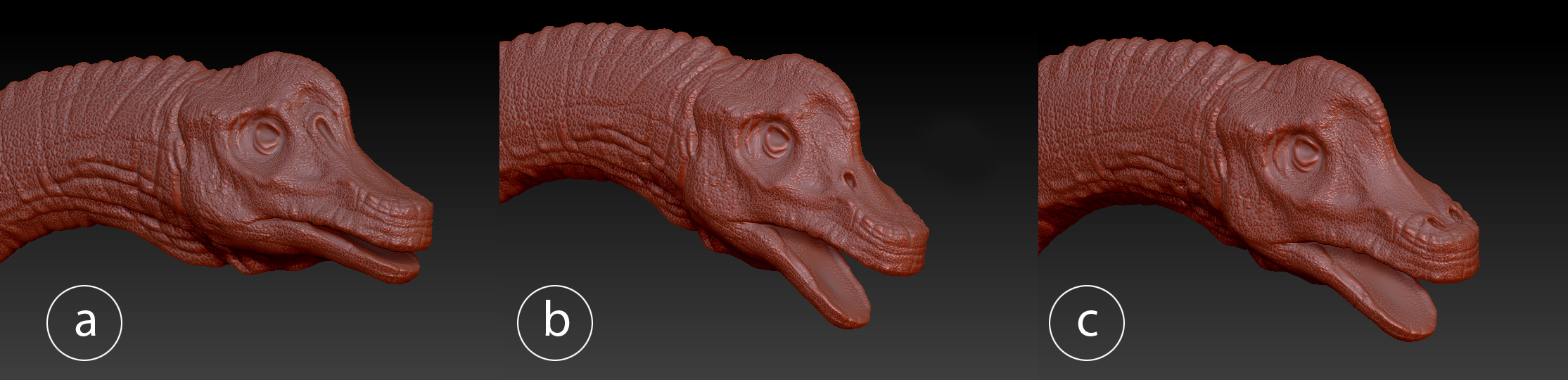 Digital reconstructions showing three of the most likely placements of the fleshy nostrils of Giraffatitan brancai, C being currently regarded as the most likely option.